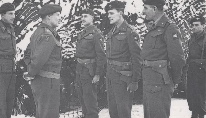 Brigadier Poett talking with Field Marshal Montgomery during the Battle of the Bulge in January 1945. Left to right: Major-General Eric Bols (CO 6th Airborne Division), Field Marshal Bernard Montgomery, Brigadiers Edwin Flavell (6th Airlanding Brigade), James Hill (3rd Parachute Brigade), Nigel Poett, and Lieutenant-Colonel Napier Crookenden (CO 9th Parachute Battalion).